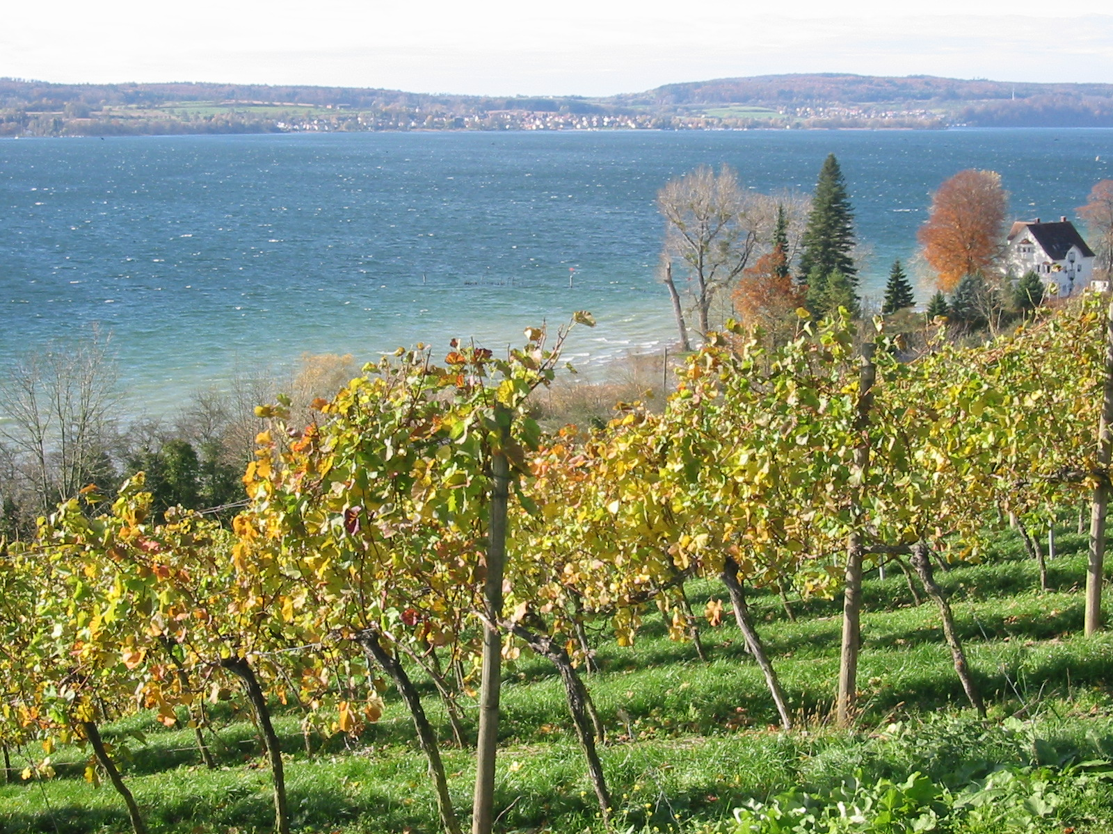 Vineyard at Birnau, Germany on the shores of Lake Constance